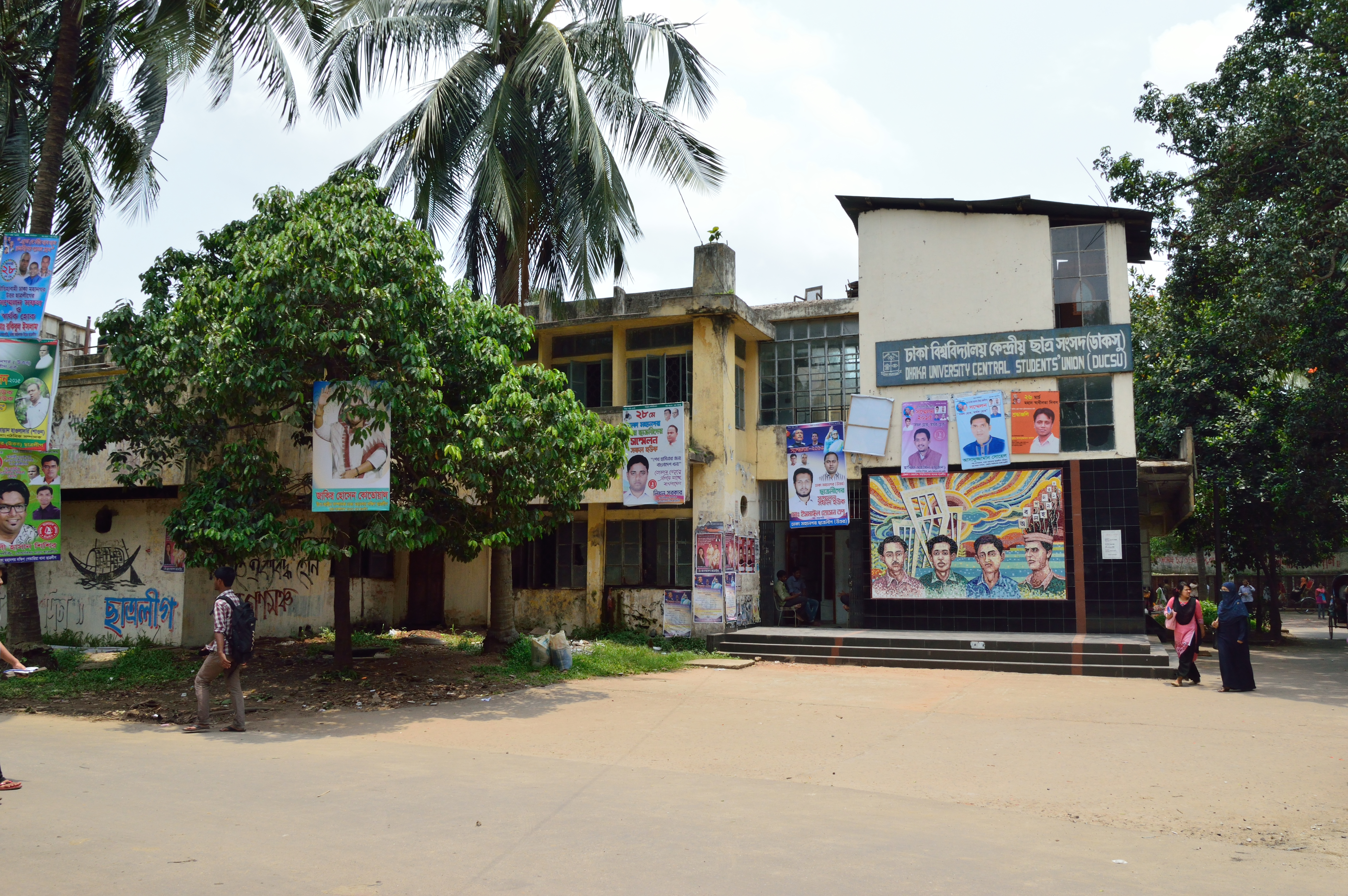 Photographed in Dhaka, Bangladesh.